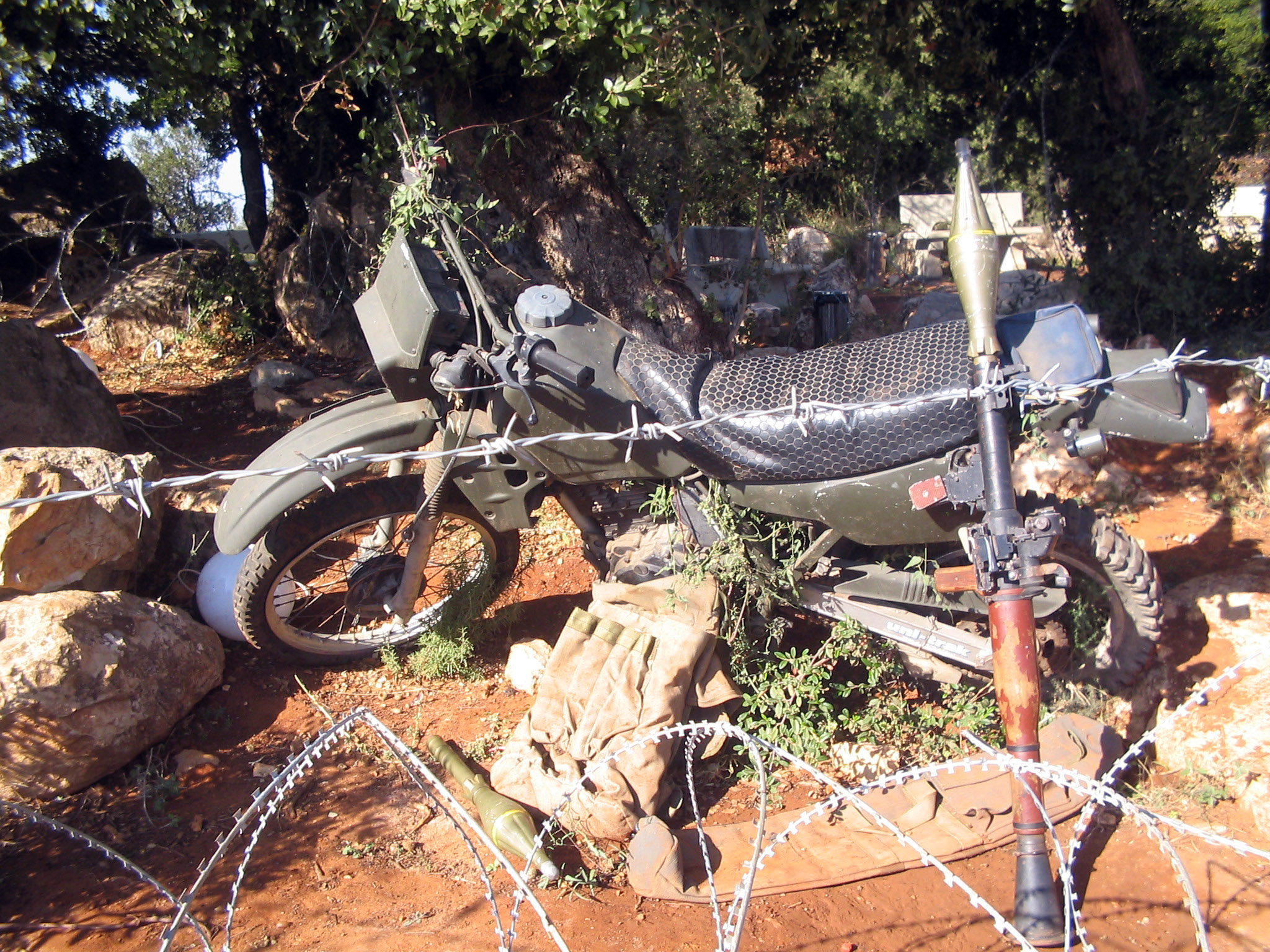 Mleeta museum is resistance museum of Lebanon established by Hezbollah in 2010. This museum is War memorial of Three Israeli invasion of Lebanon and defense against it.